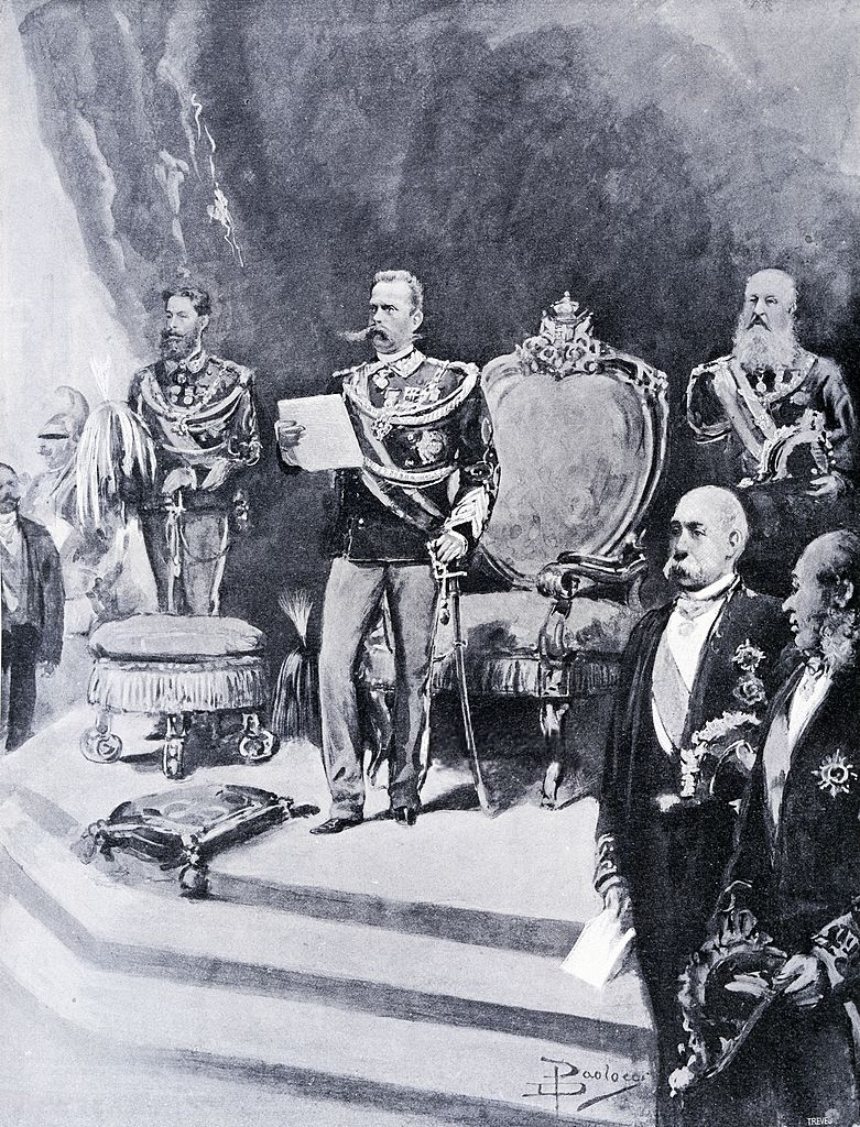 King Umberto I swearing allegiance to the State January 19, 1878, from Italian Illustration. Italy, 19th century.